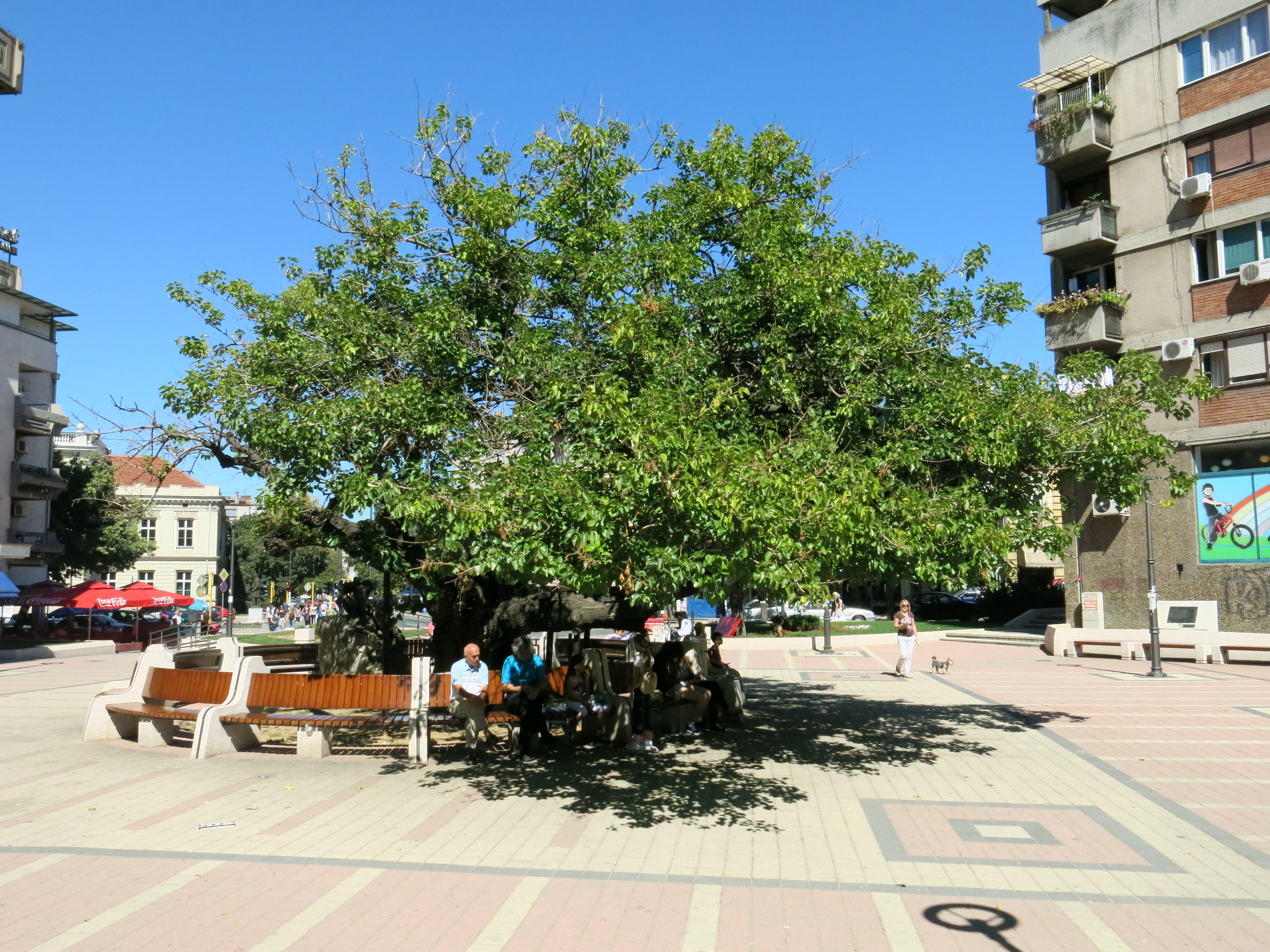 Smederevo, Karađorđe's mulberry